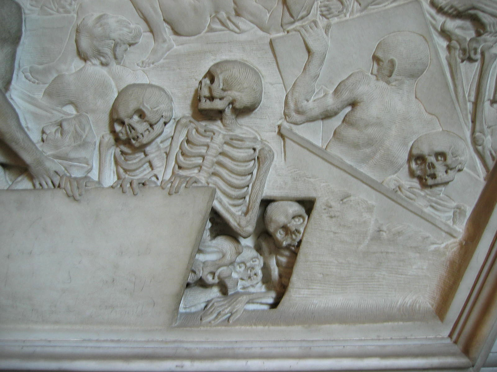 Detail of sarcophagus of Girolamo Raimondi (c. 1645). Cappella Raimondi, San Pietro in Montorio, Roma